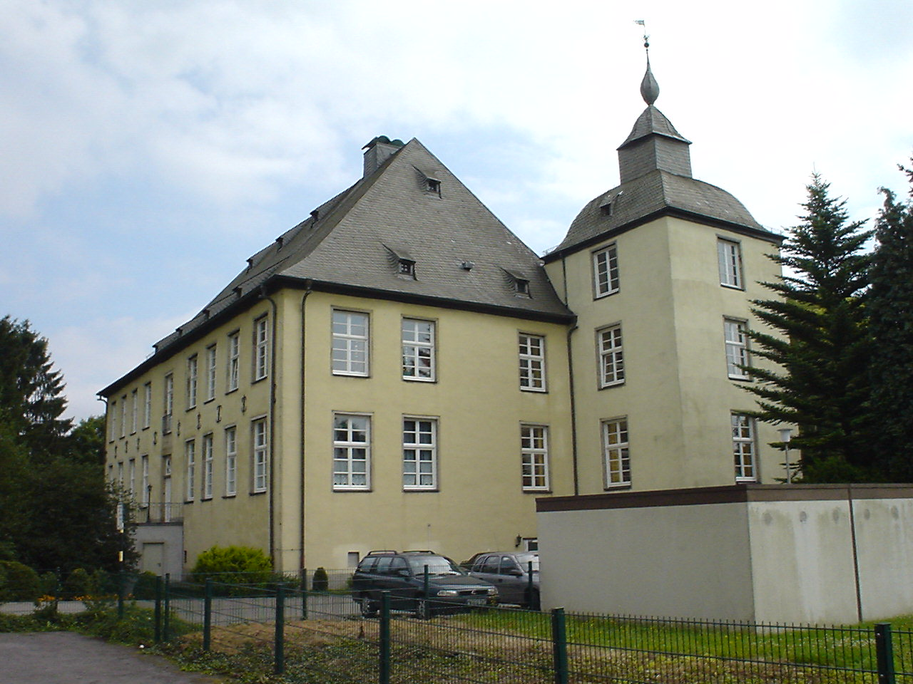 Haus Hemer in Hemer, Germany. The manor which already existed when Hemer was first mentioned in a document. The actual building visible today was build around 1614. See also [1] for a detailed history of the manor (in German).